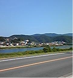 This is a road in Japan.